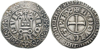 Germany, Aachen. Louis of Bavaria. 1314-1328. AR Groschen (2.83 g). Imitating a gros of Louis IX of France. +LVDOVICV•S• REX, cross +TVRONVS•CIVIS, castle. DeMey Gros 635; Frey -; Saurma -. This coin is a virtual duplicate of the Gros tournois of Louis IX, but is struck on the reduced German groschen standard.